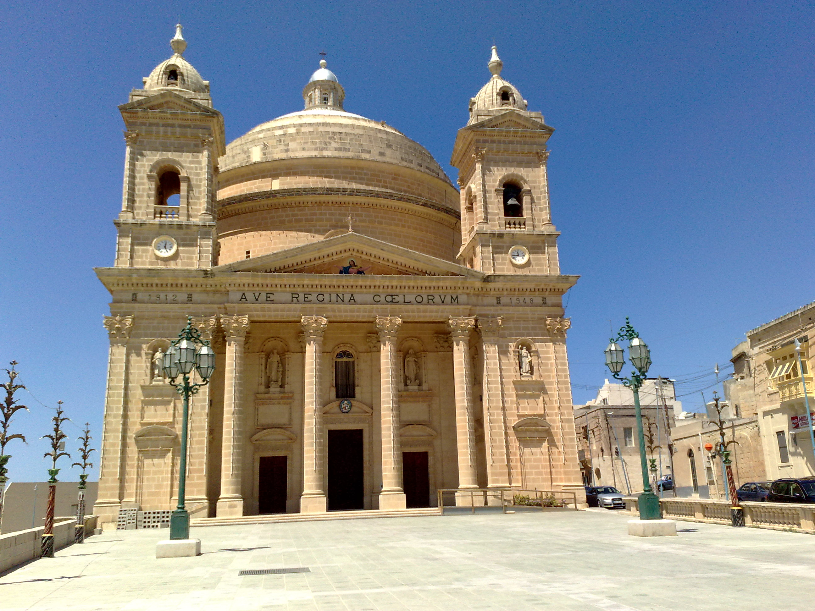 Mgárr Parish Church